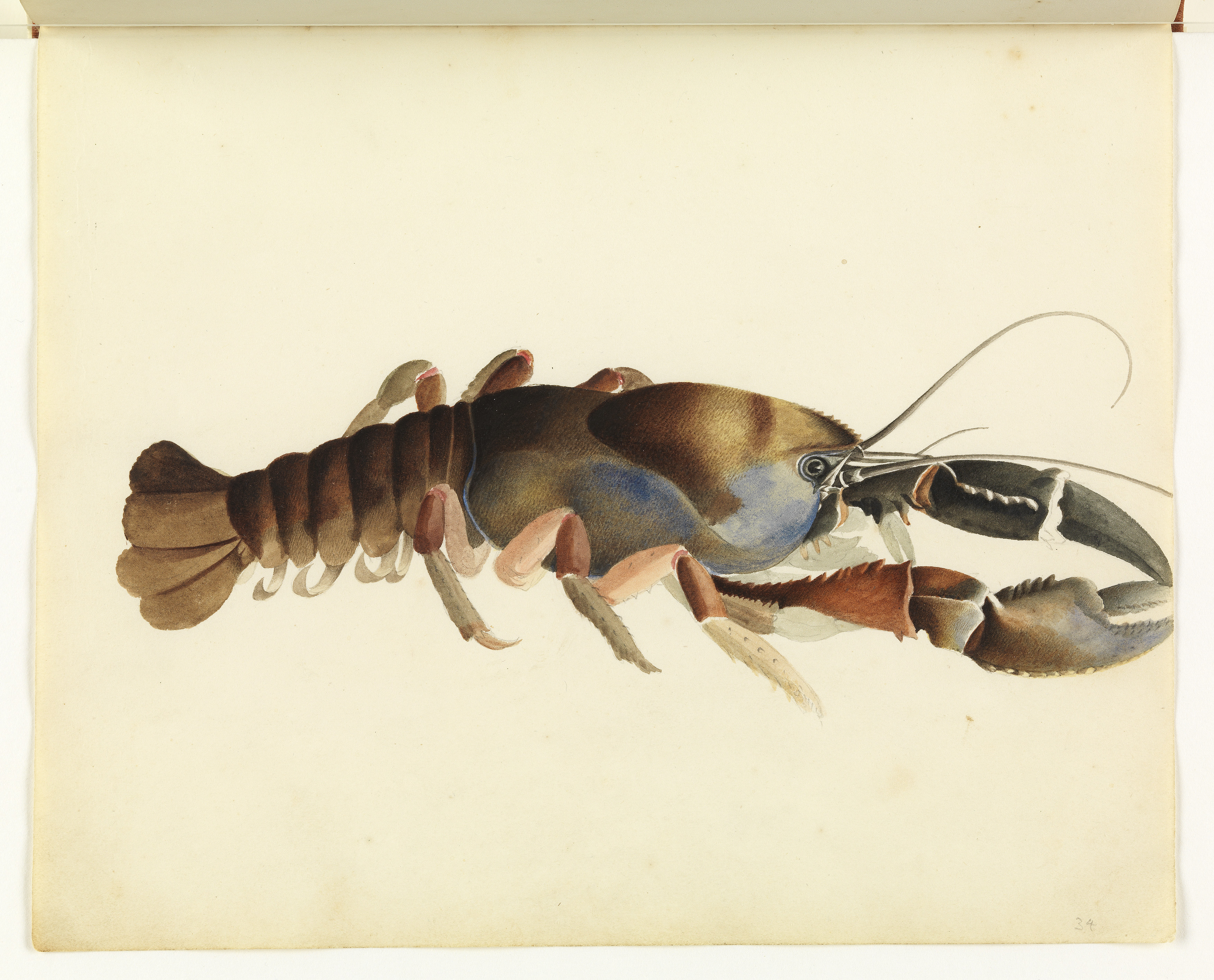 Sketch 34. Fresh water crayfish (Tasmanian giant freshwater crayfish, Astacopsis gouldi) watercolour on paper sketch from the Sketchbook of fishes by Van Diemonian (Tasmanian) artist and convict William Buelow Gould (1801 - 1853). This full reproduction shows the bindings of the sketchbook at the top of the image. Produced c1832 as part of a thirty-six image still life sketchbook of fishes while Gould was a convict on Sarah Island at the Macquarie Harbour Penal Station. Probably done for Dr William De Little. Inscribed on the UNESCO Australian Memory of the World Register on 1 April 2011 Actual size 185 x 227 mm.